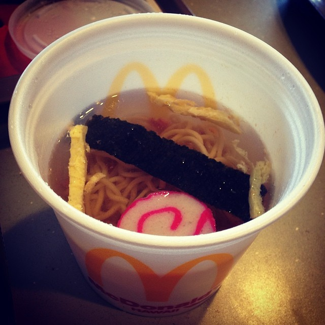 McDonald instant noodles